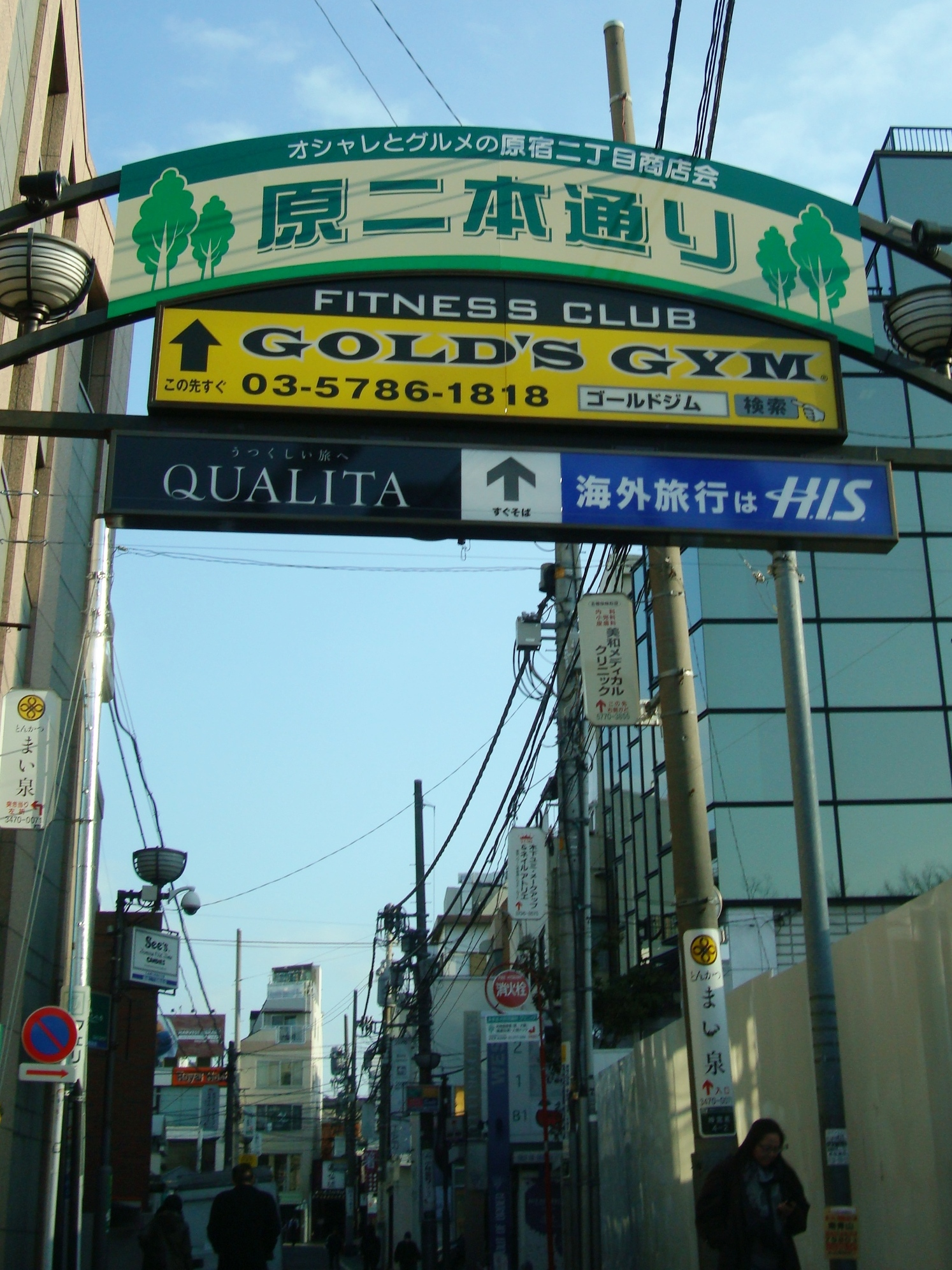 The Harani-Hondori shopping street's gate on the Omote-sando avenue, Tokyo